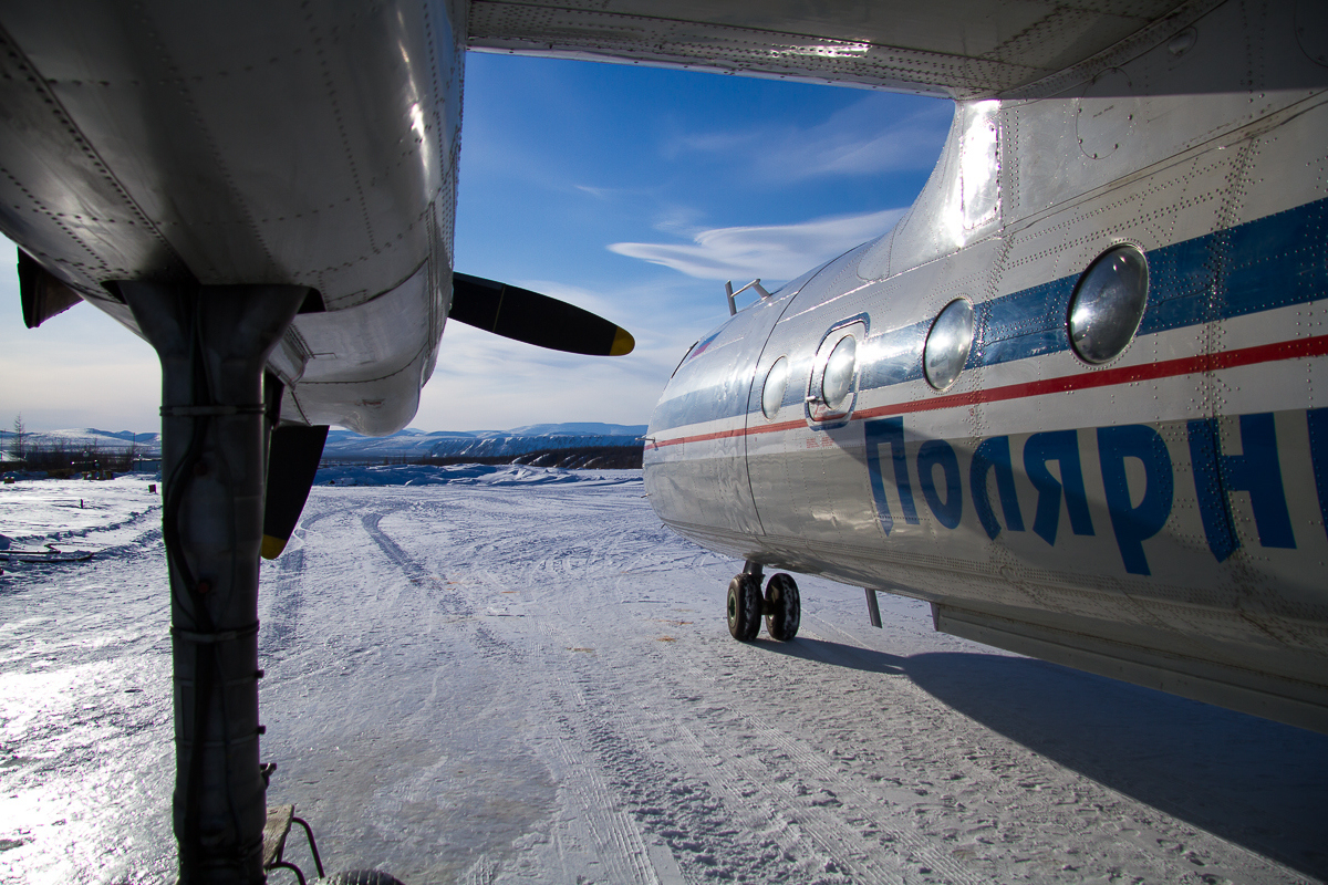 Polar Airlines Antonov An-24RV (RA-47260) at Ust-Kuyga Airport